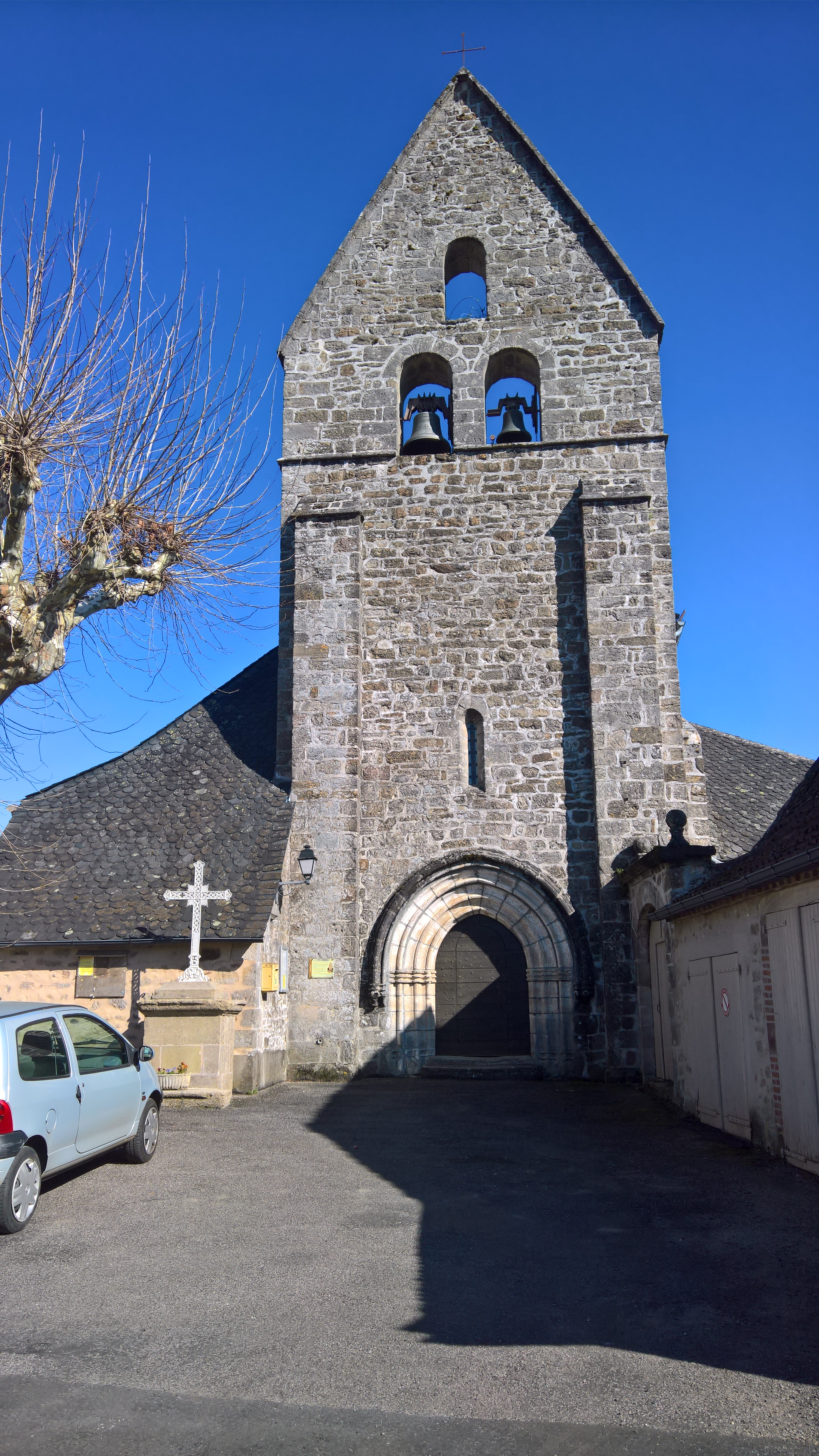 Parish Church in Sioniac